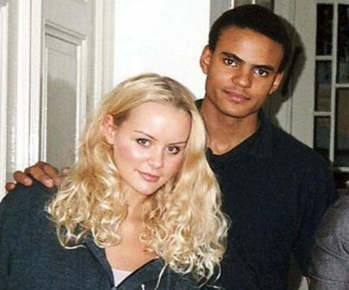 Helena Mattsson & Mohombi Moupondo after a Wild Side Story rehearsal, as released by image creator F.U.S.I.A.Place: F.U.S.I.A., Hökens gata 3, Stockholm, Sweden